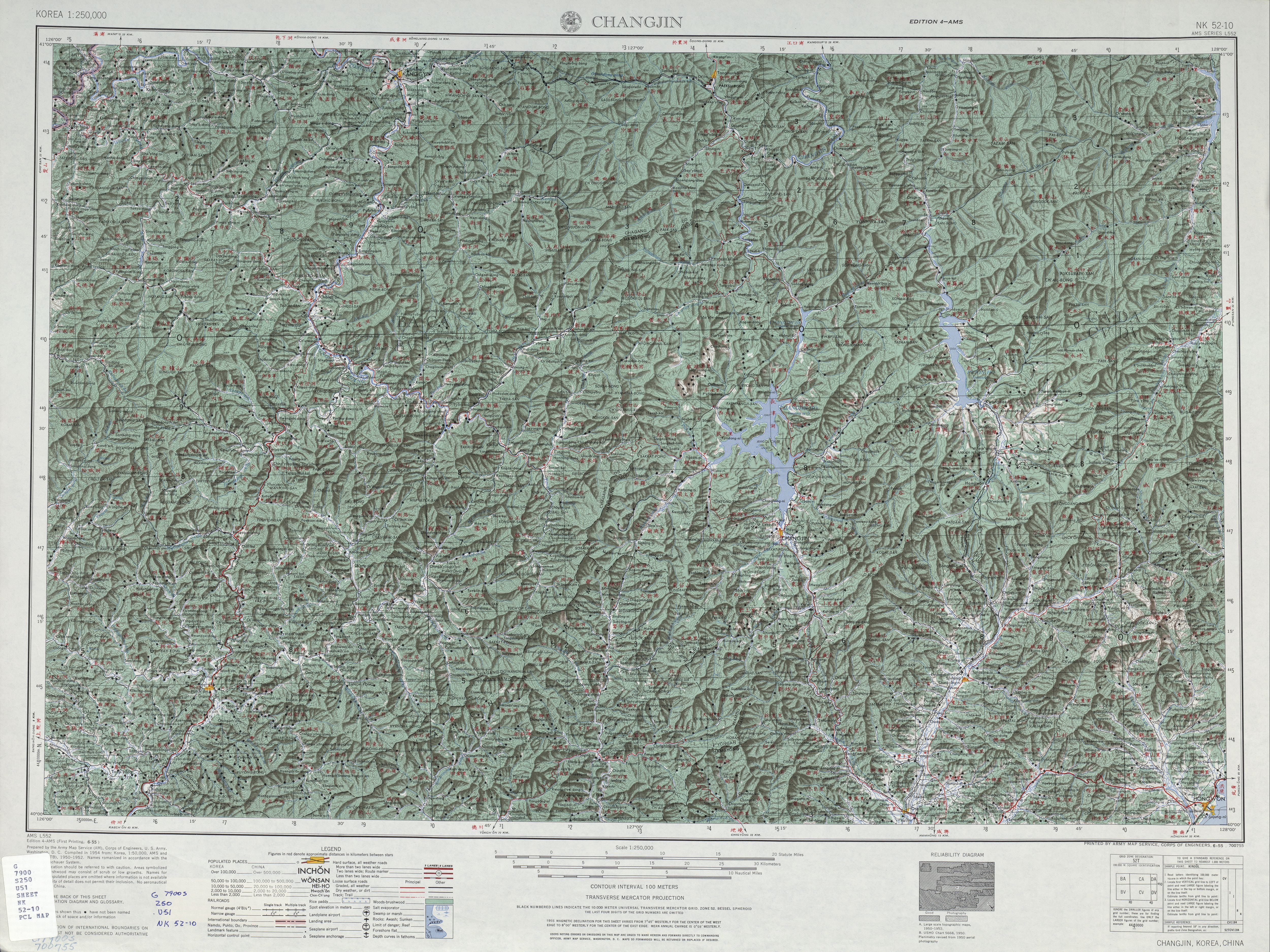 Map of part of the China-North Korea border